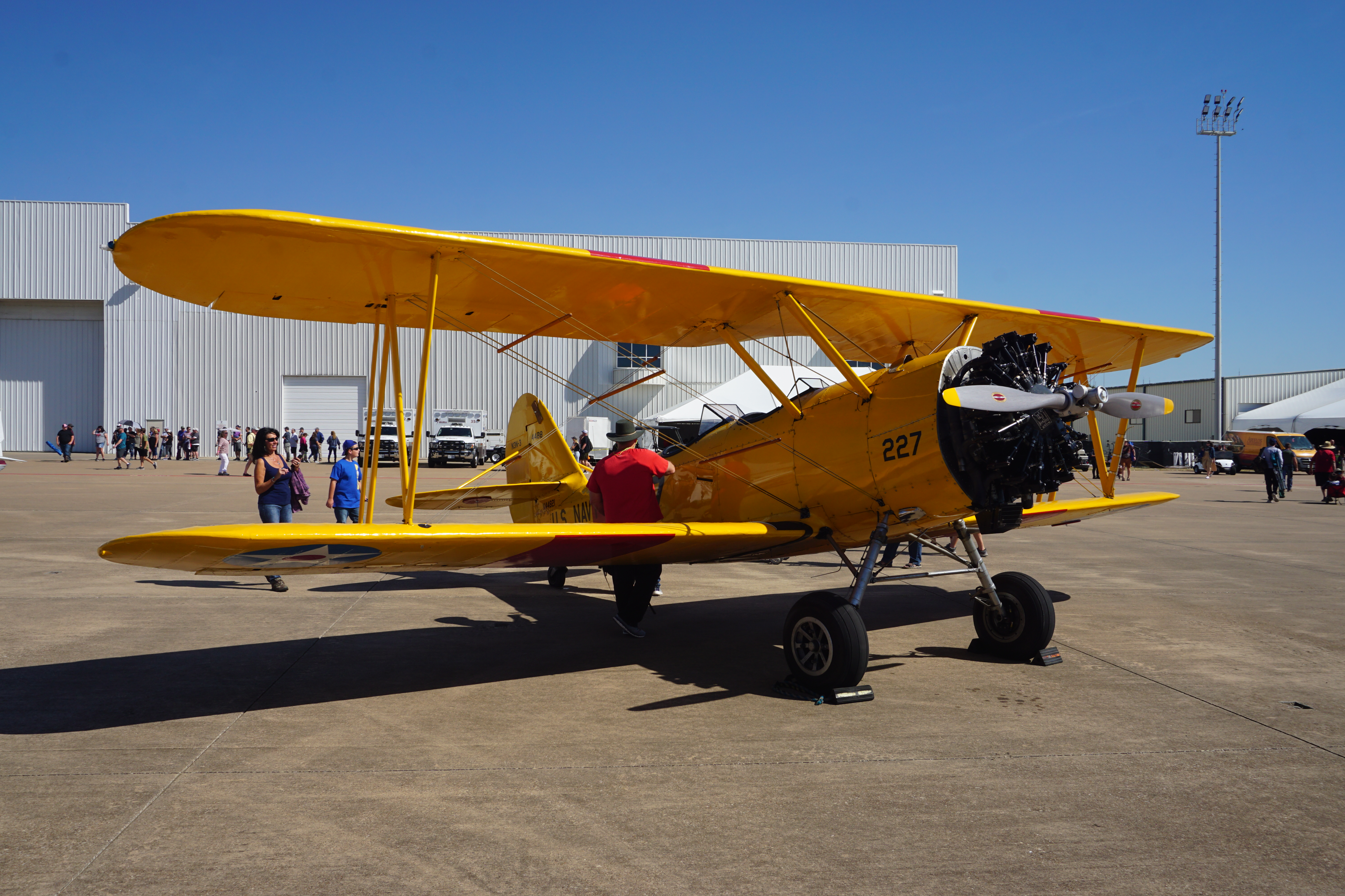 A Naval Aircraft Factory N3N on static display at the 2019 Fort Worth Alliance Air Show at Fort Worth Alliance Airport in Fort Worth, Texas (United States).